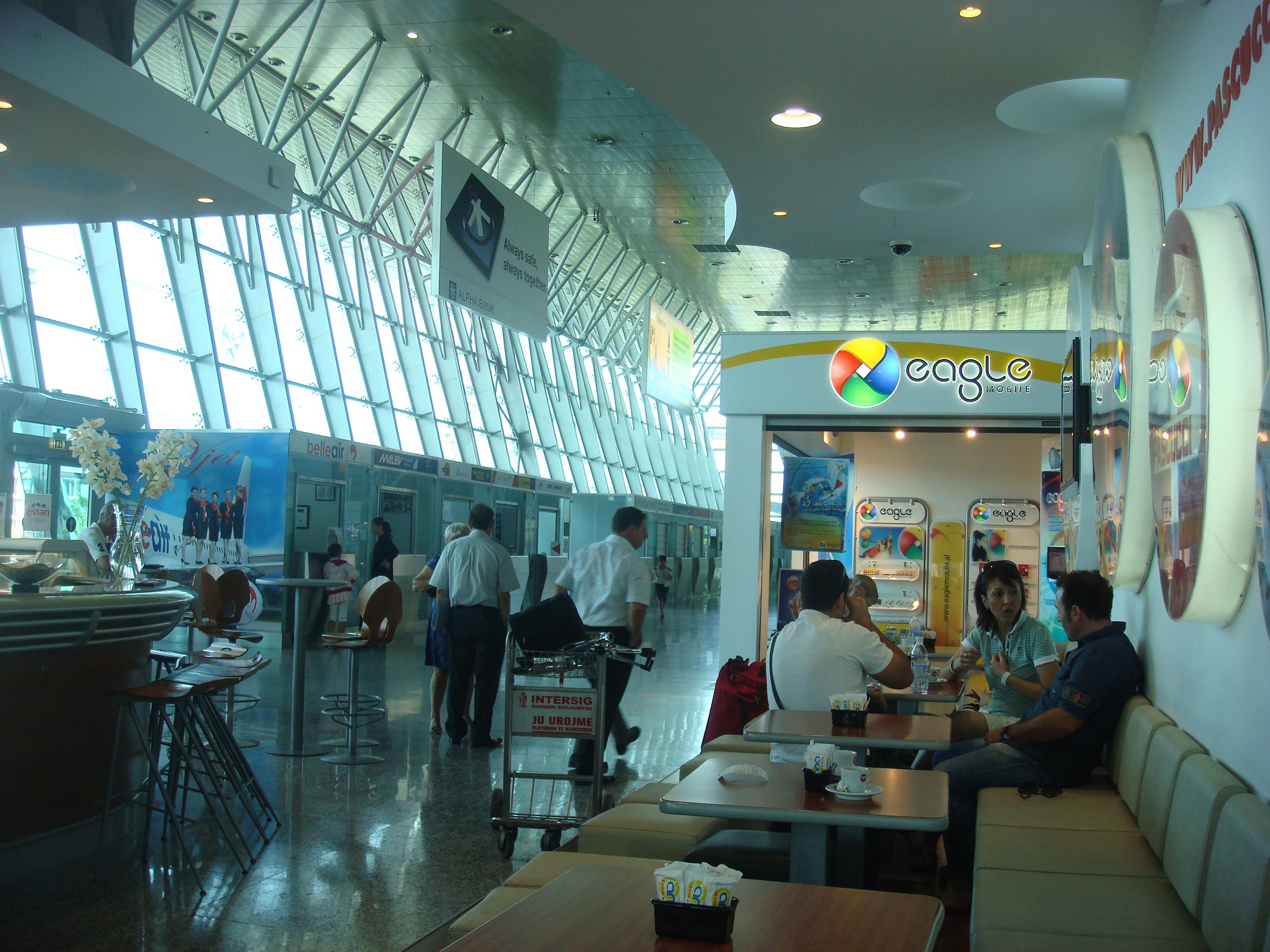 Tirana International Airport in 2010